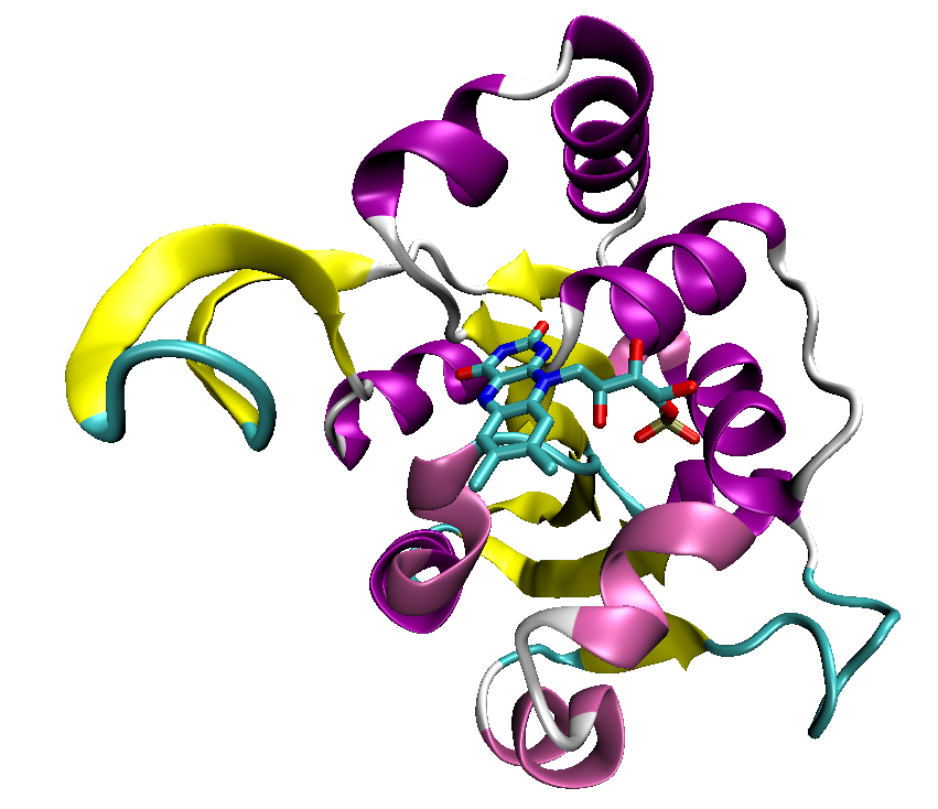 An example of the Rossman protein fold with bound FMN mononucleotide. A domain of a larger peptidyl-cysteine decarboxylase from the bacterium Staphylococcus epidermidis (PDB ID 1G5Q).